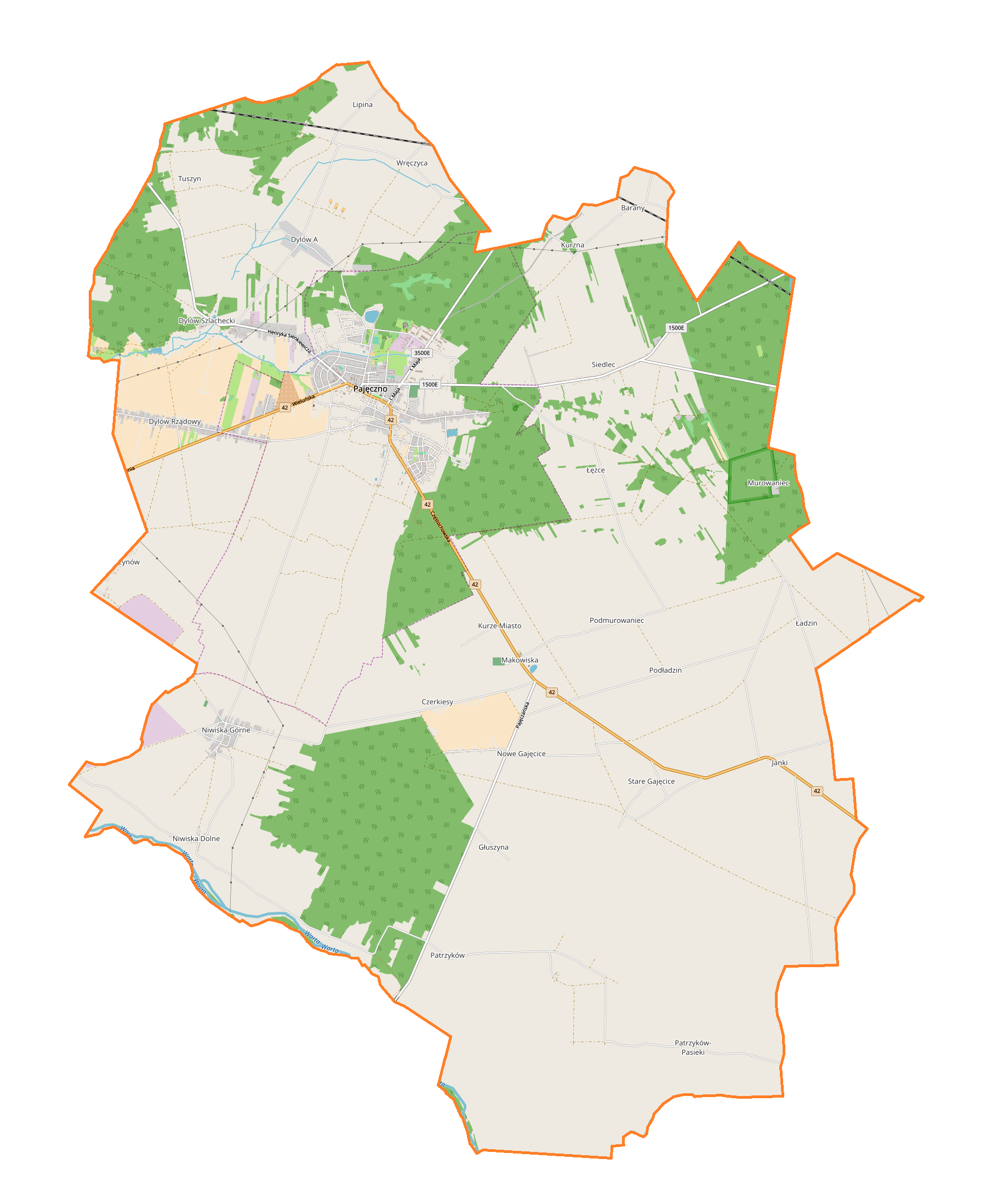 Location map